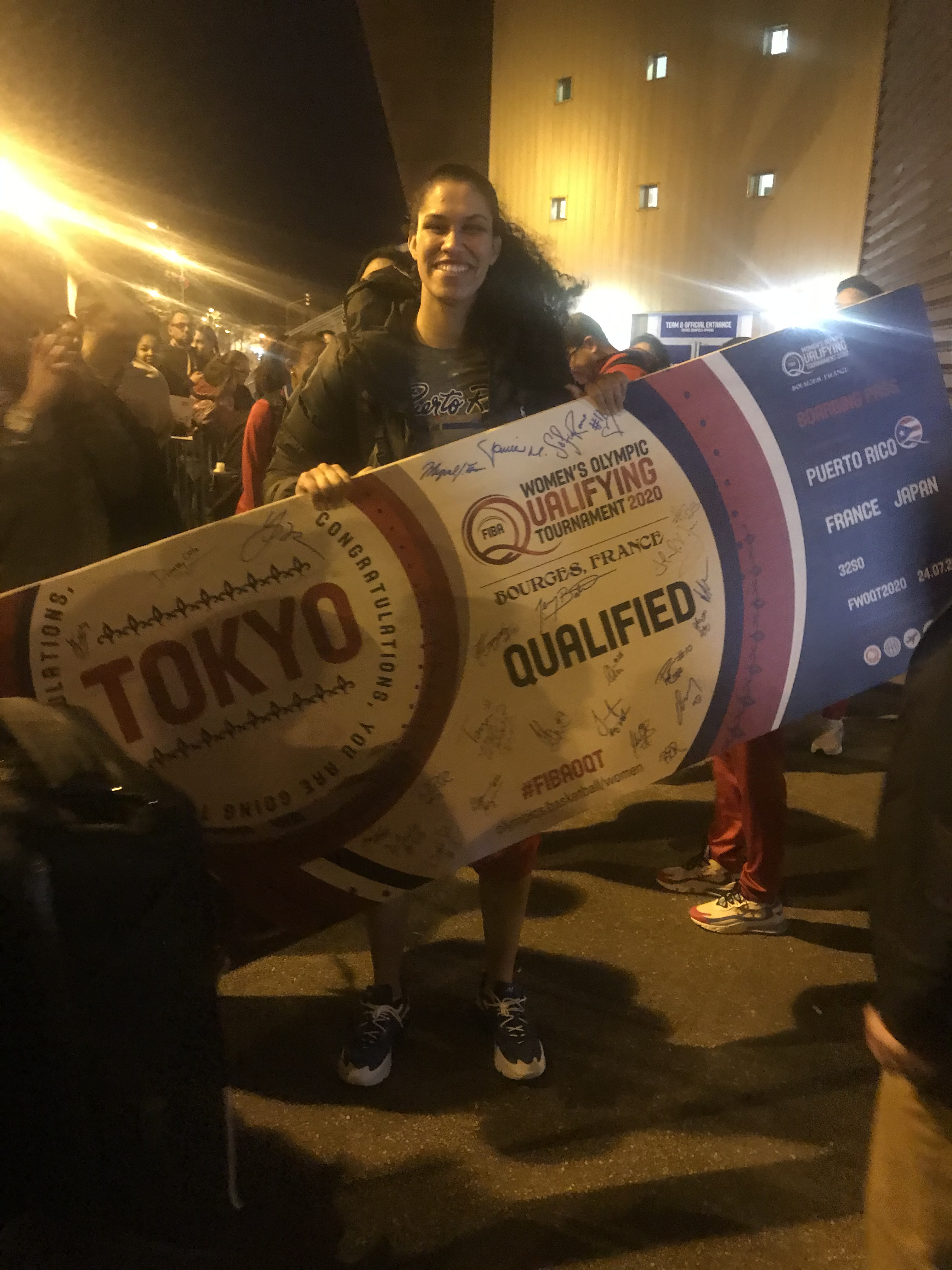 This is when Ice was coming out of the Bourges Arena, France